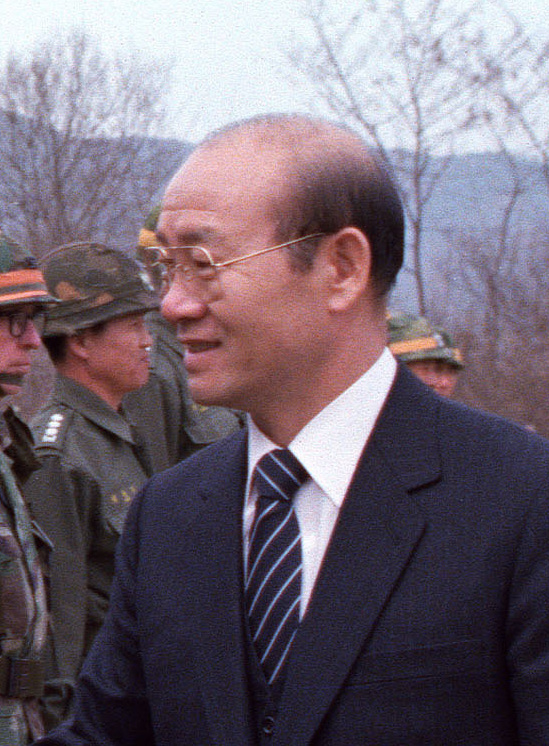 DA-SC-84-02430 President Chun Doo Hwan of South Korea meets with staff officers of the 25th Infantry Division at their field headquarters during the joint Korean/United States training exercise TEAM SPIRIT '83.